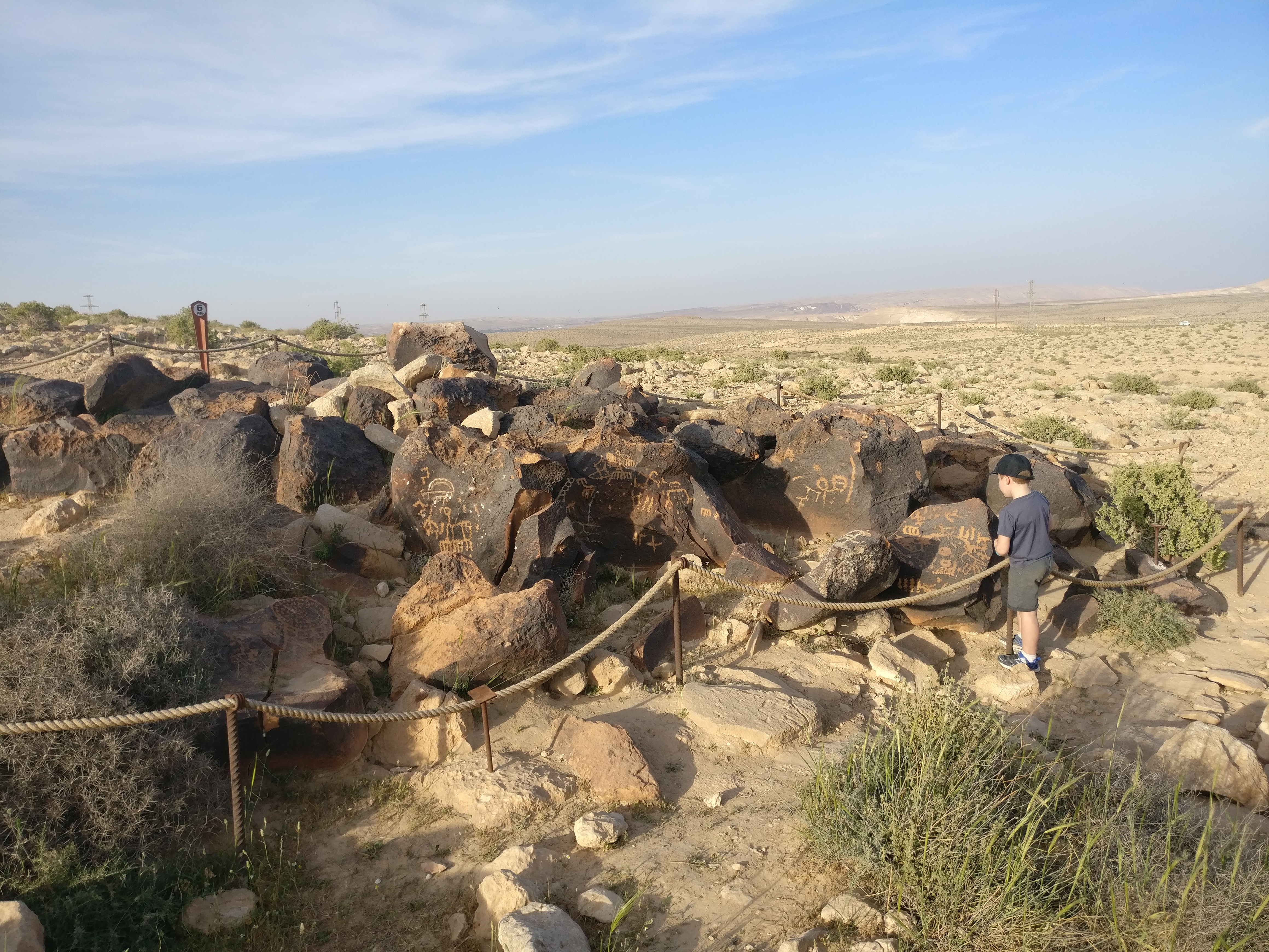 Petroglyphs at Mehia mount Israel